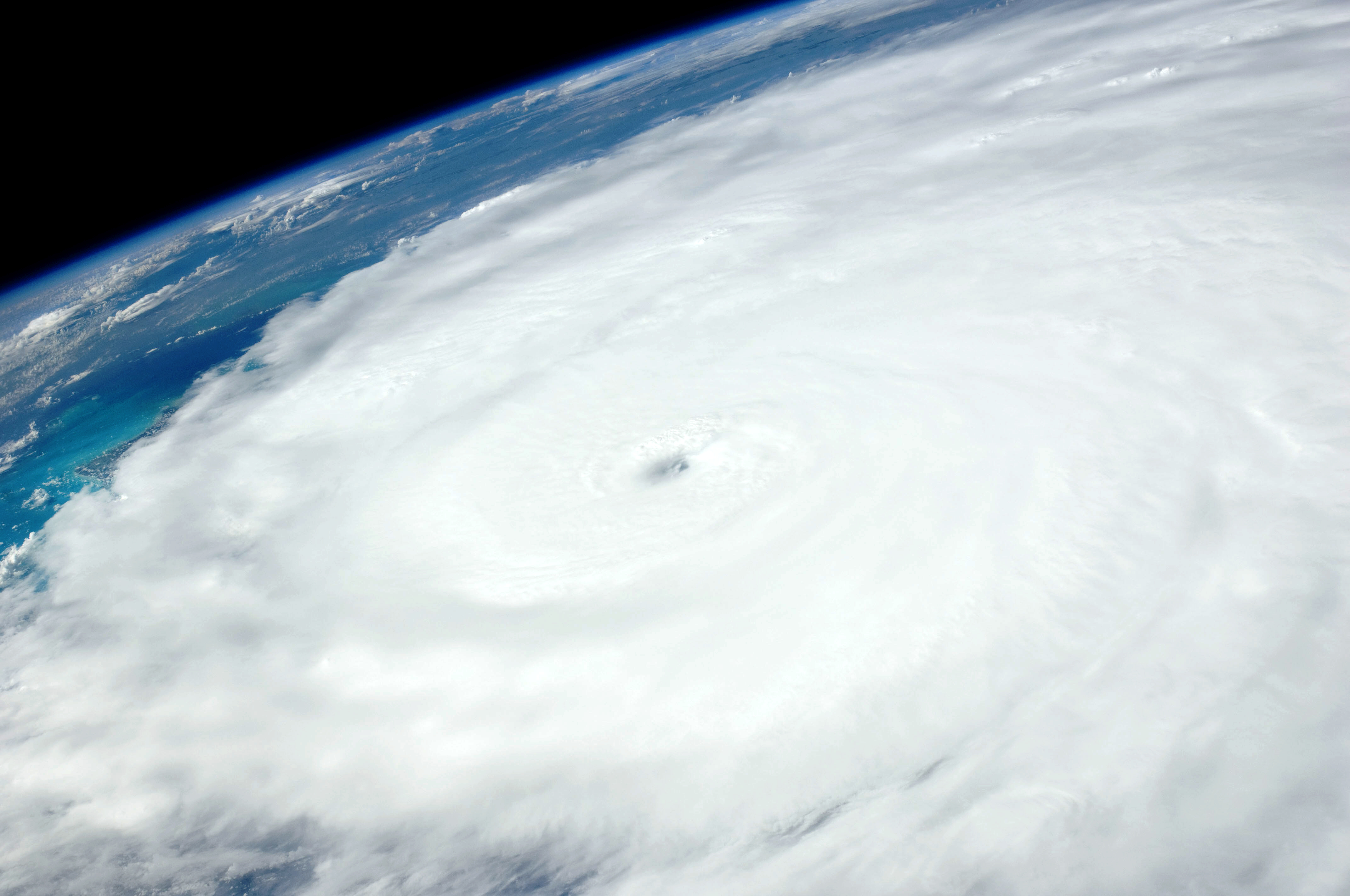 This photo of Hurricane Irene was photographed from onboard the International Space station at 19:14:09 GMT on Aug. 24, 2011. The image, captured with a 38mm lens, reveals the eye at center frame.